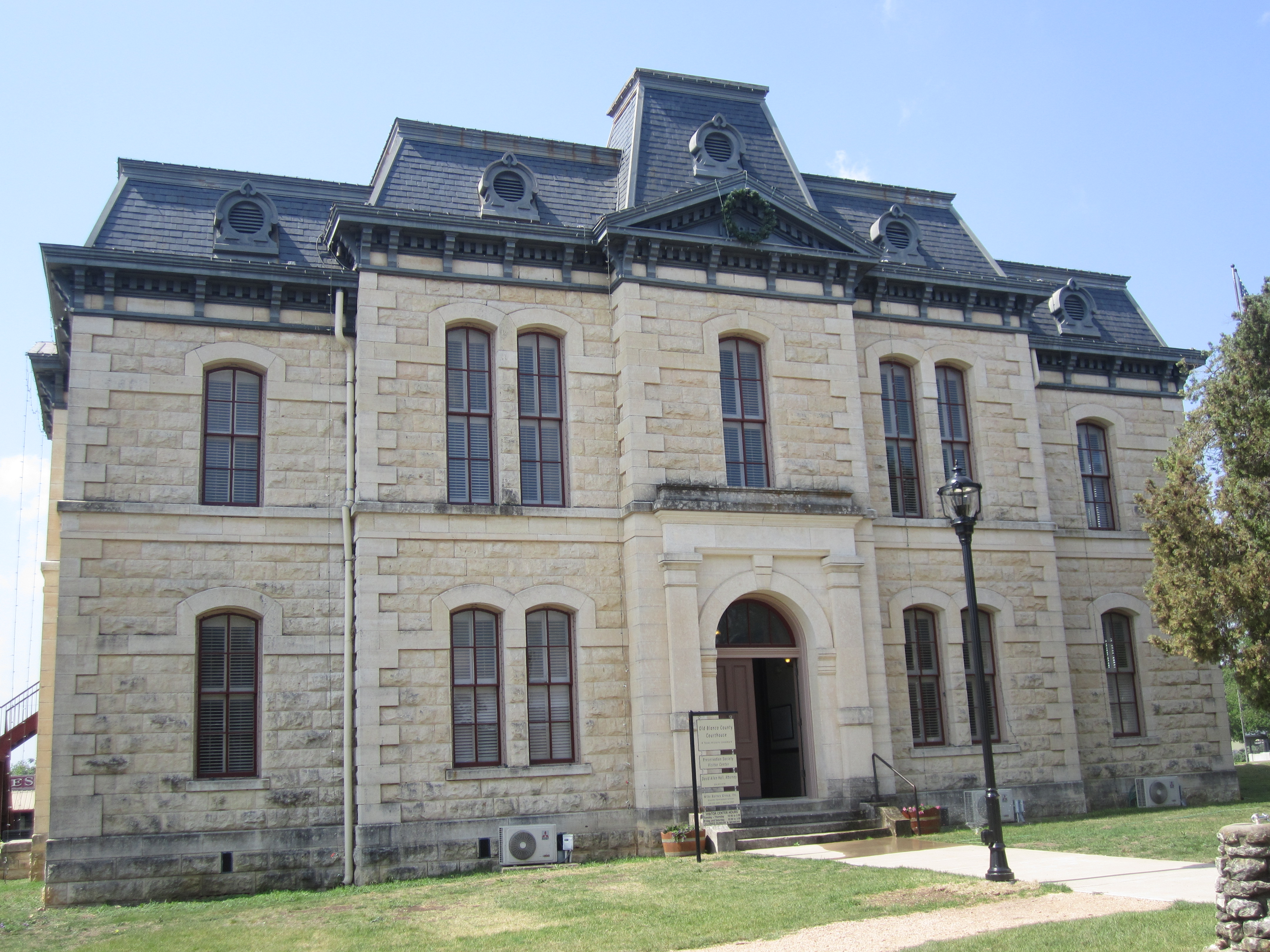 I took photo with Canon camera in Blanco, TX. Recorded Texas Historic Landmark - 1972